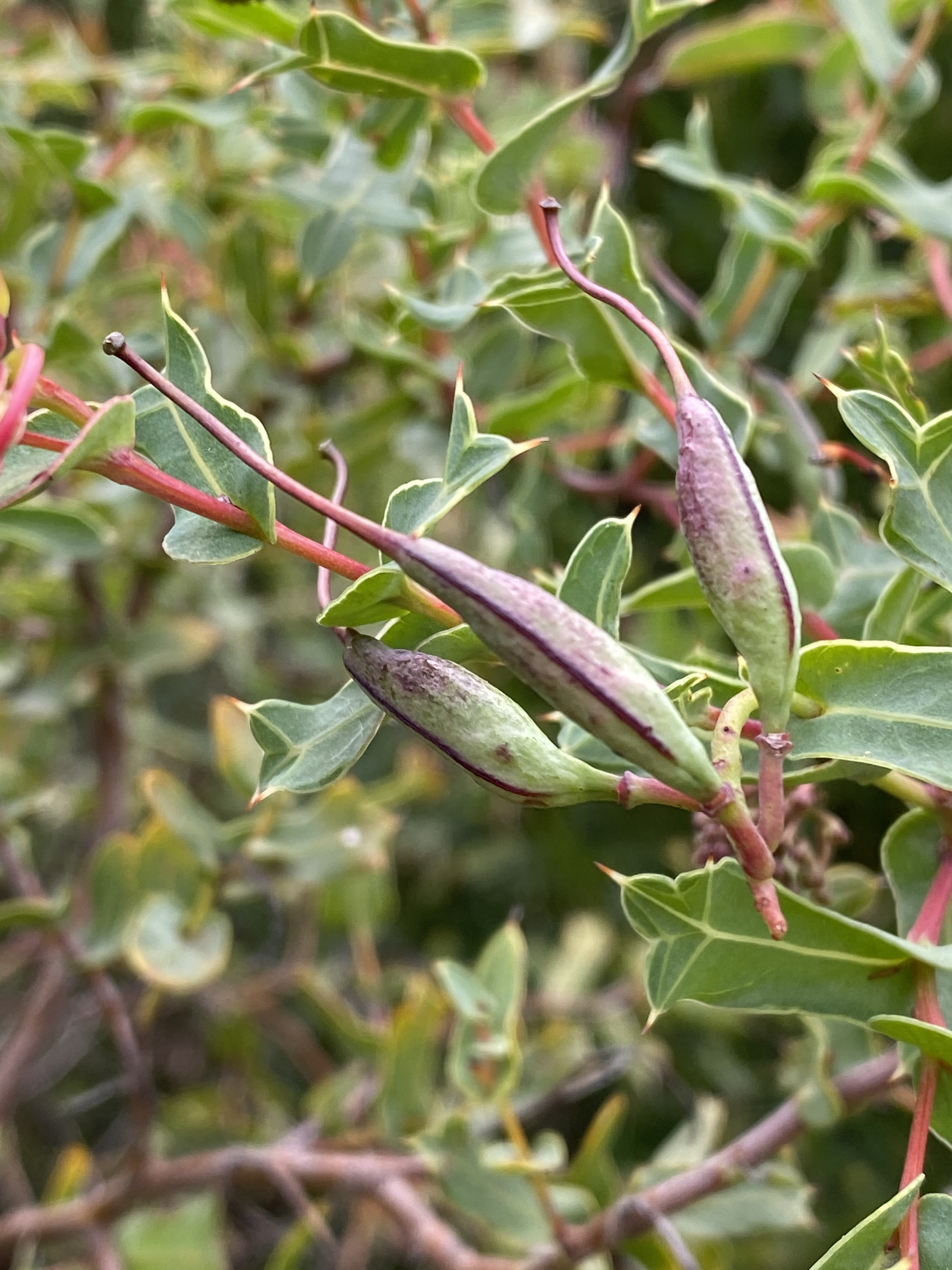 Grevillea maccutcheonii fruit and foliage